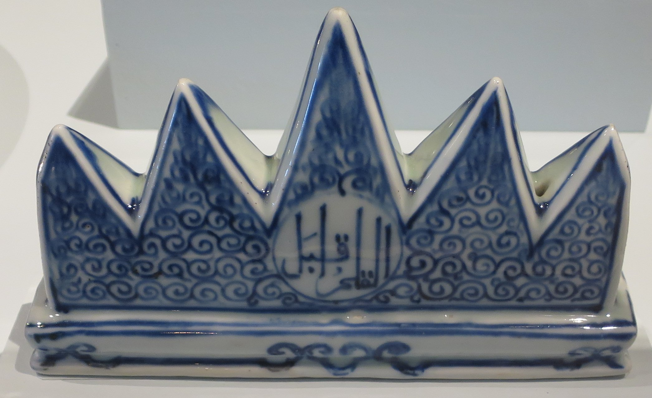 Brush rest from China, early 16th century, glazed porcelain, underglaze-painted, Honolulu Museum of Art, accession 1605.1